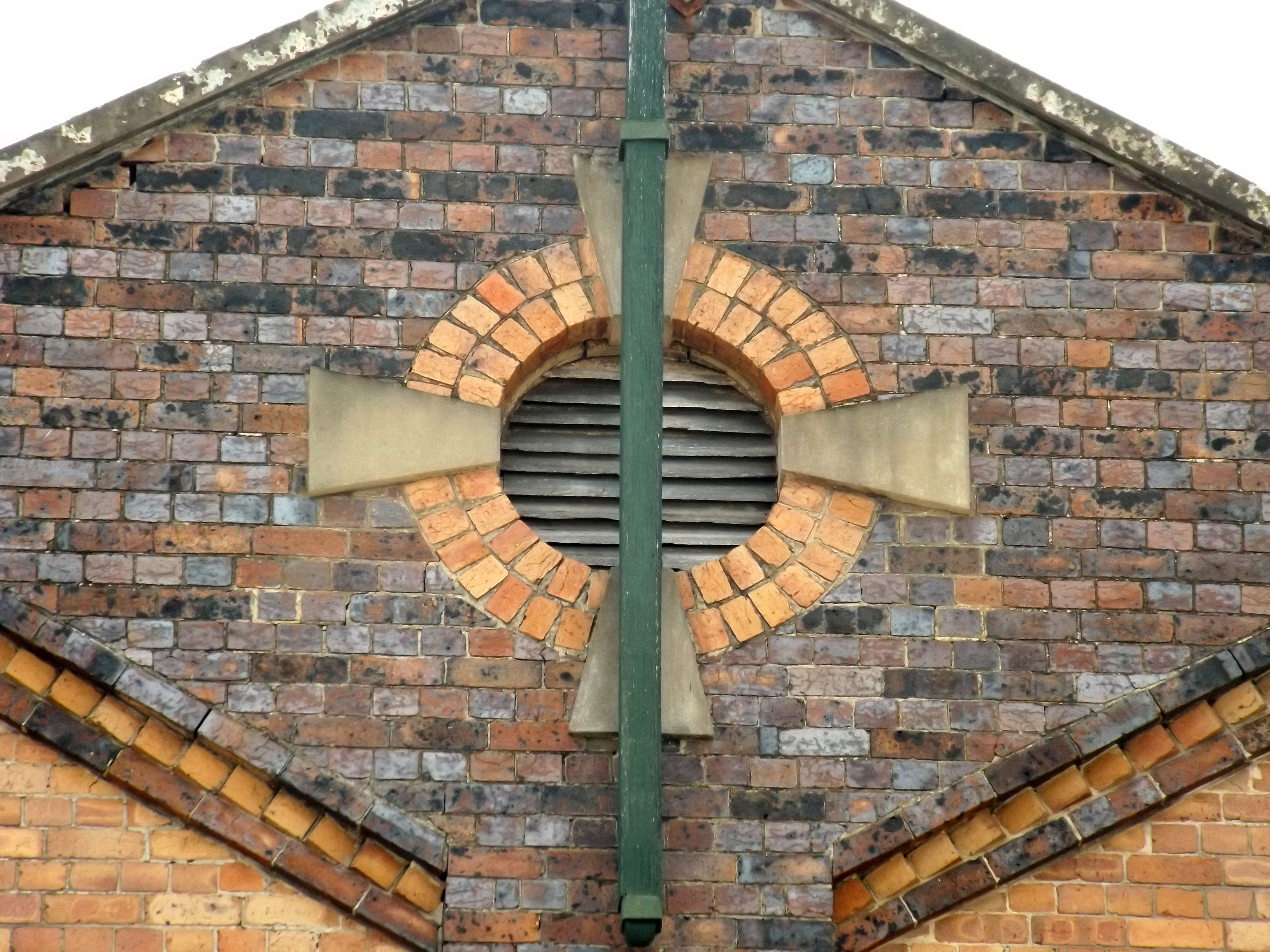 Photo of the Flour Mill in Ipswich, Queensland, Australia.